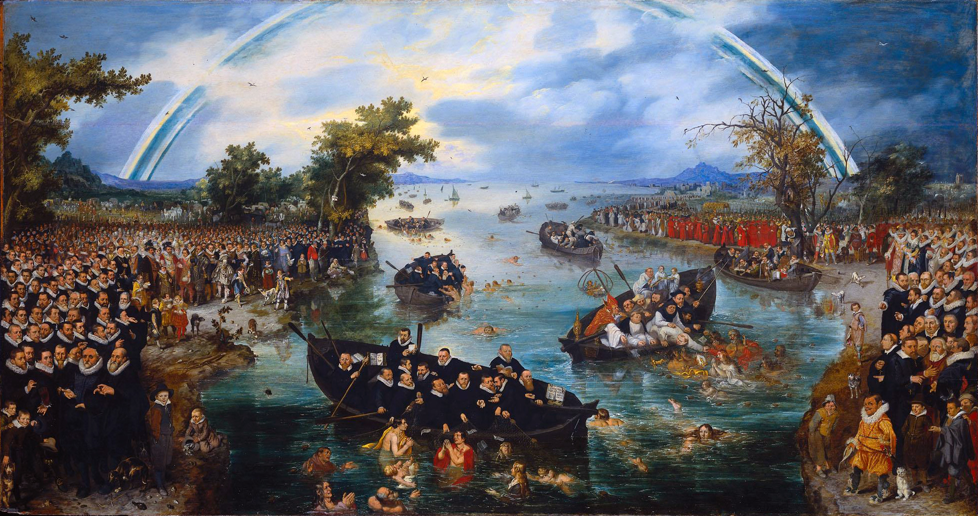 Fishing for souls: allegory of the jealousy between the various religious denominations during the Twelve Years Truce (1609-1621) between the Dutch Republic and Spain. A river landscape with large numbers of people standing on either side of the river. In the river are several rowing boats. In the sky a rainbow is visible. The group of people on the left side are protestants with their patrons, the prices of Orange, Maurice and Frederick Henry, Frederick V of the Palatinate, James I of England and a youthful Louis XIII of France with his mother, Marie de' Medici. The rowing boat on the foreground contains protestant 'fishermen' with fishing nets marked with the words Fides, Spes and Charitas (Faith, Hope and Love). The group of people on the right are catholics with their patrons, Albert and Isabella, general Ambrosio Spinola and the pope being carried by cardinals. In the catholic boat priest are 'fishing', while being overseen by a bishop.